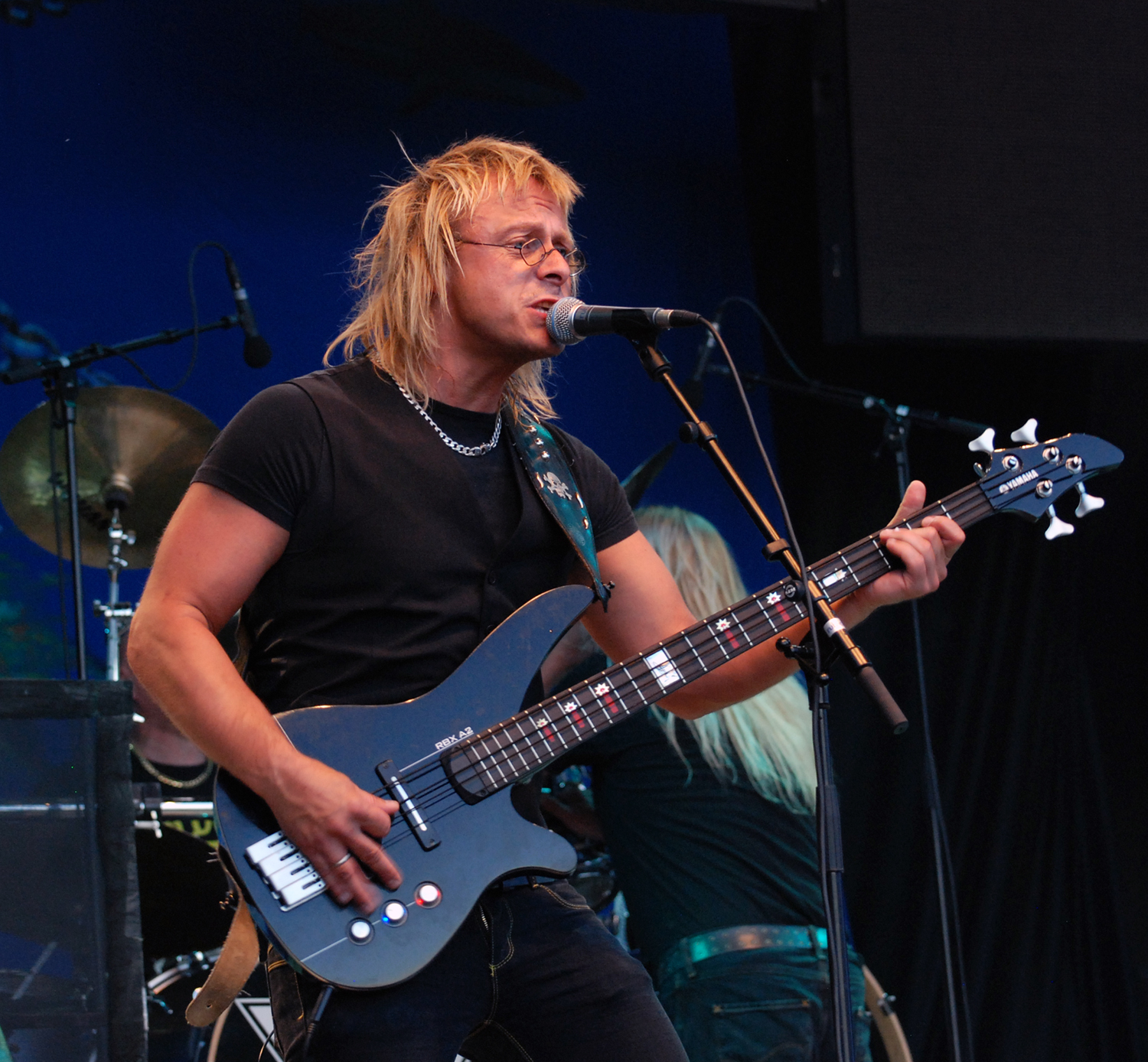 Victor Borge of TNT live at Hamar Music Festival 2009.